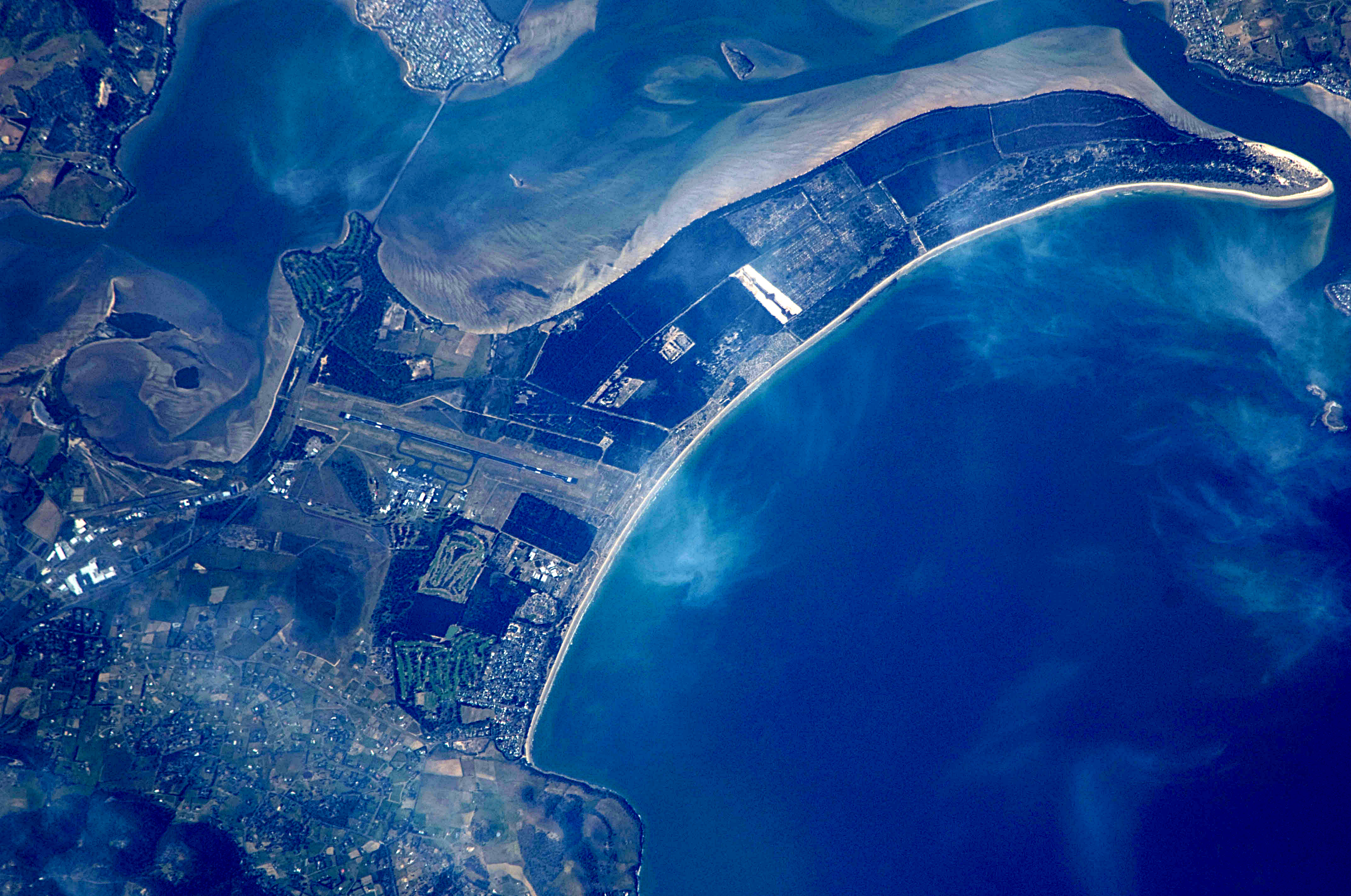 Image of Hobart Hobart International Airport and Cambridge Aerodrome, taken by NASA